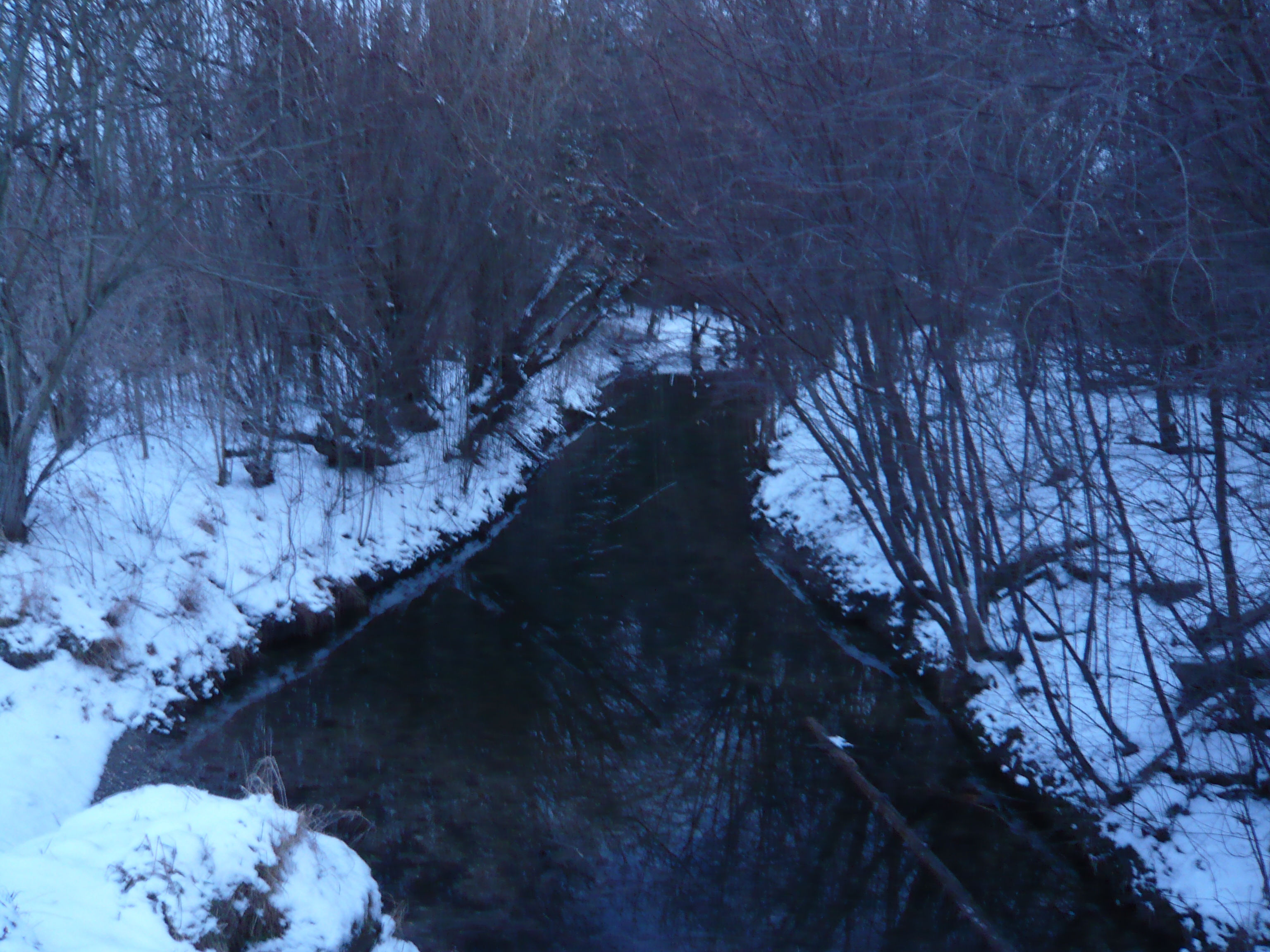 A little Stream in Gröbenzell